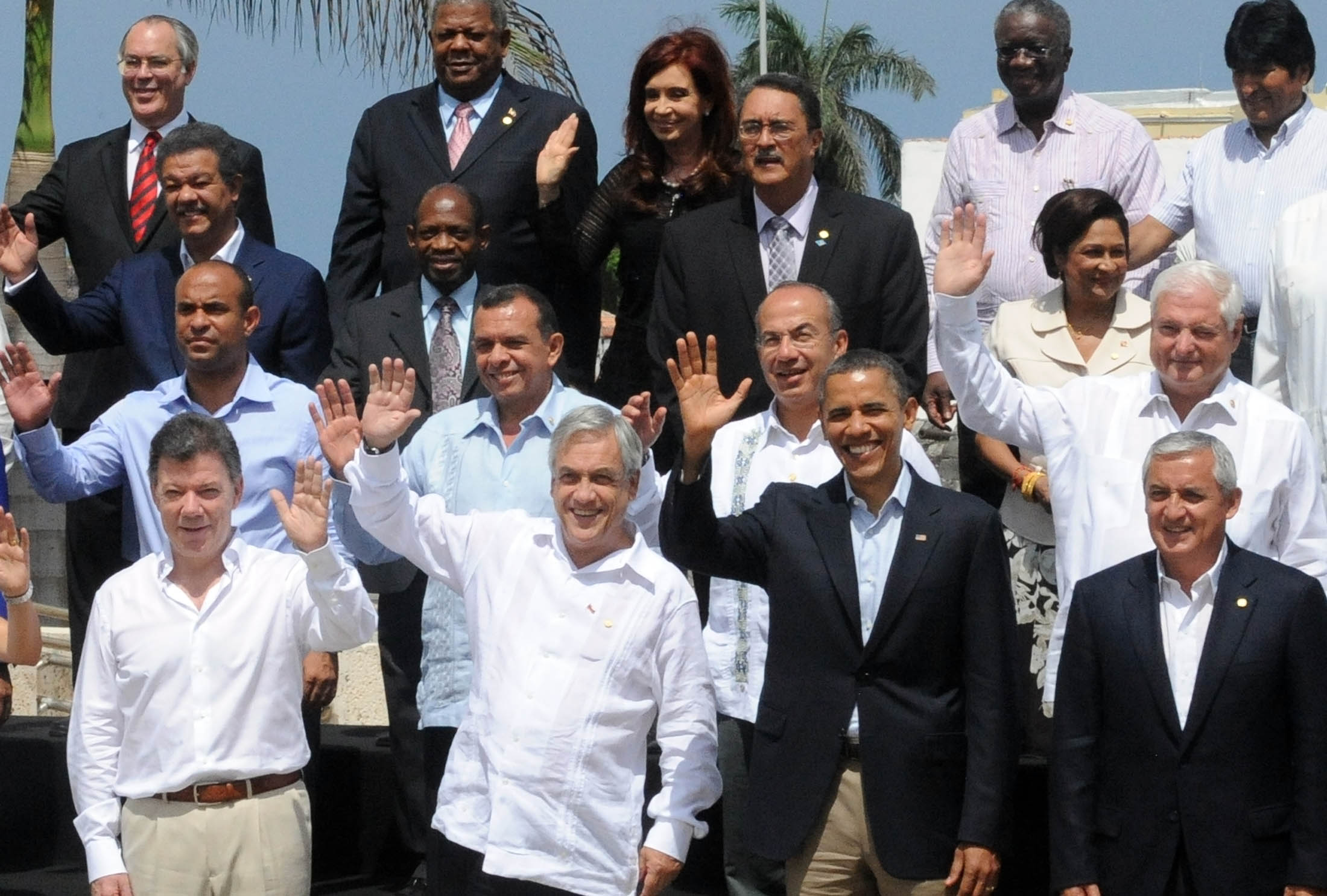 A casual group portrait of some of the heads of state in Cartagena, Colombia, attending the 6th Summit of the Americas (April 2012).